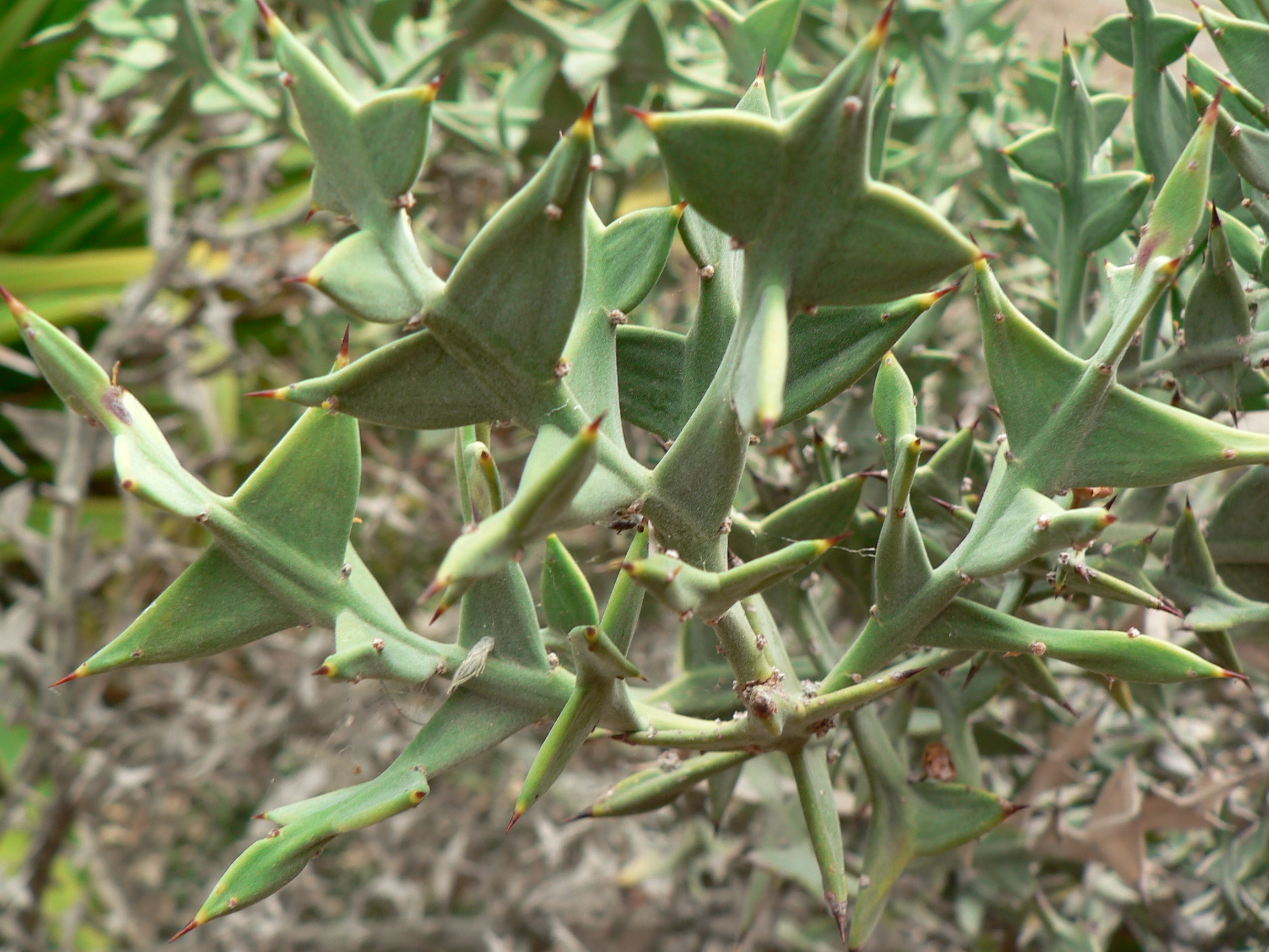 Colletia paradoxa, Botanical Garden Hanbury at Ventimiglia, Italy